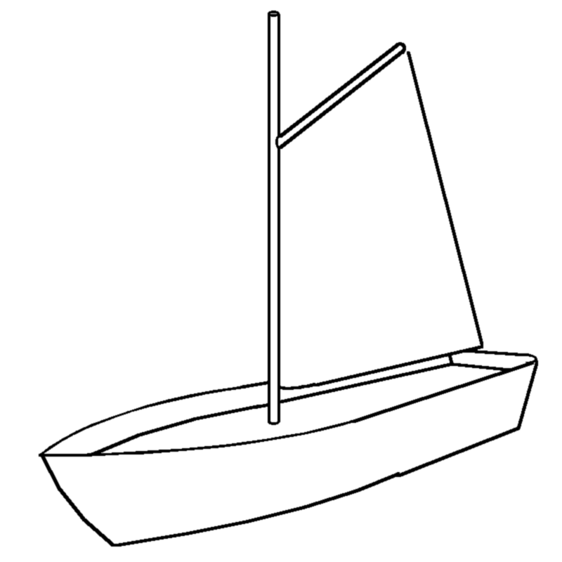 Gaff Sails. the figure is drawn by Yosemite.